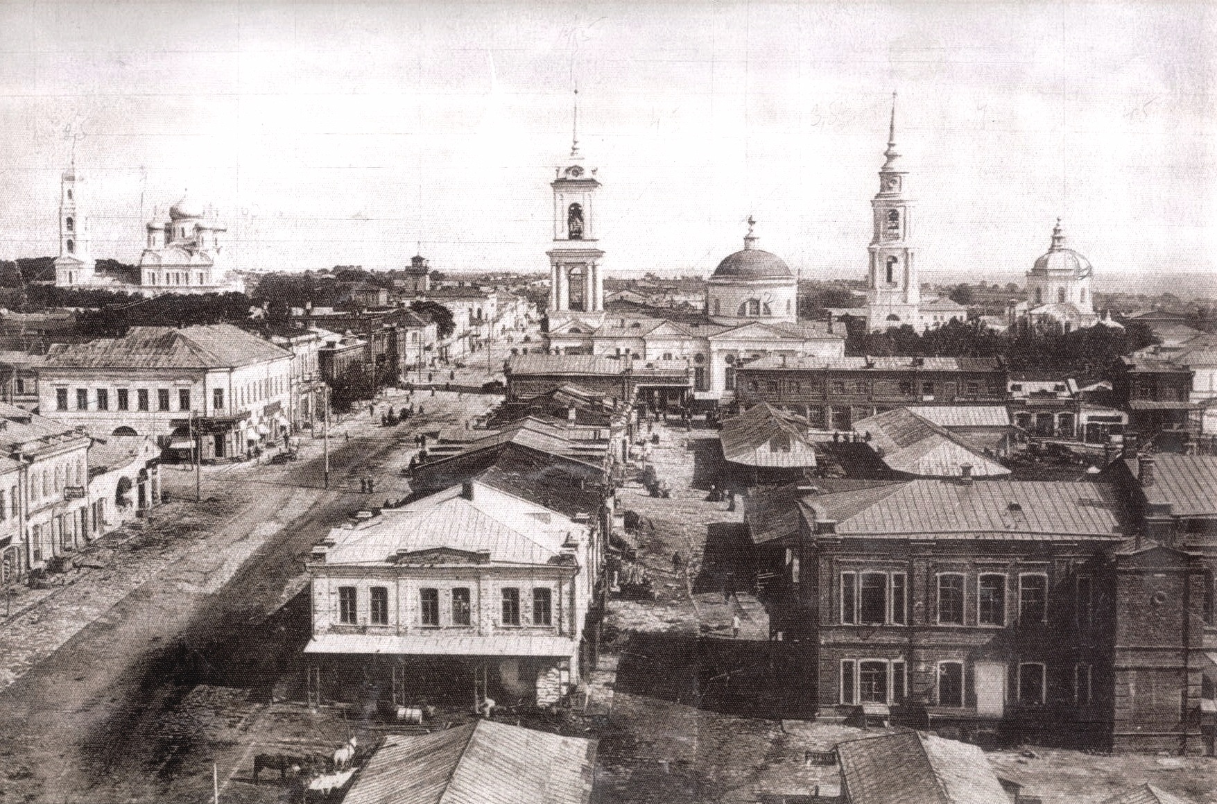 Livny